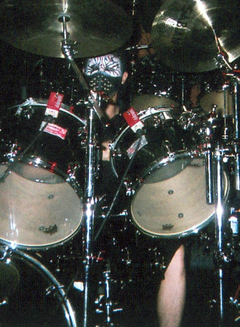 Description: Dani performing with ChthoniC during their 2007 "UNLimited Taiwan" Tour. Source: My own personal photo, taken in-concert Date: July 13th, 2007 Location: Studio Seven, Seattle, Washington, United Stated of America Author: Fugitivedread (user) Permission: Creator agreed to release this under the conditions of the CC-BY-SA 2.0.